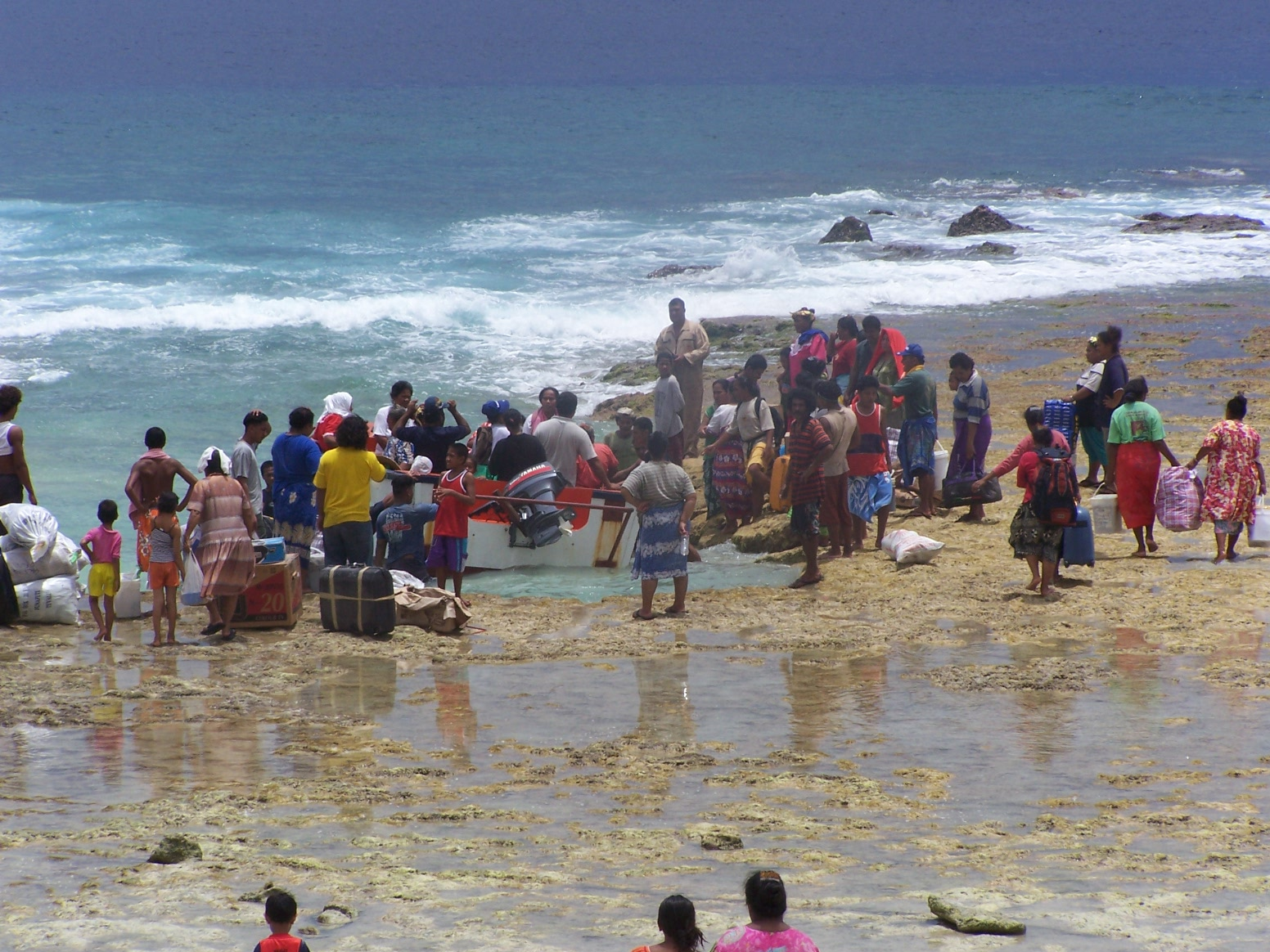 Cargo is offloaded from tenders that transfer passengers & cargo between the inter-island ferries and each of the outer islands of Tuvalu (here on the island of Niutao). A hazardous exercise, fraught with risk for passengers & the crew of the tenders.